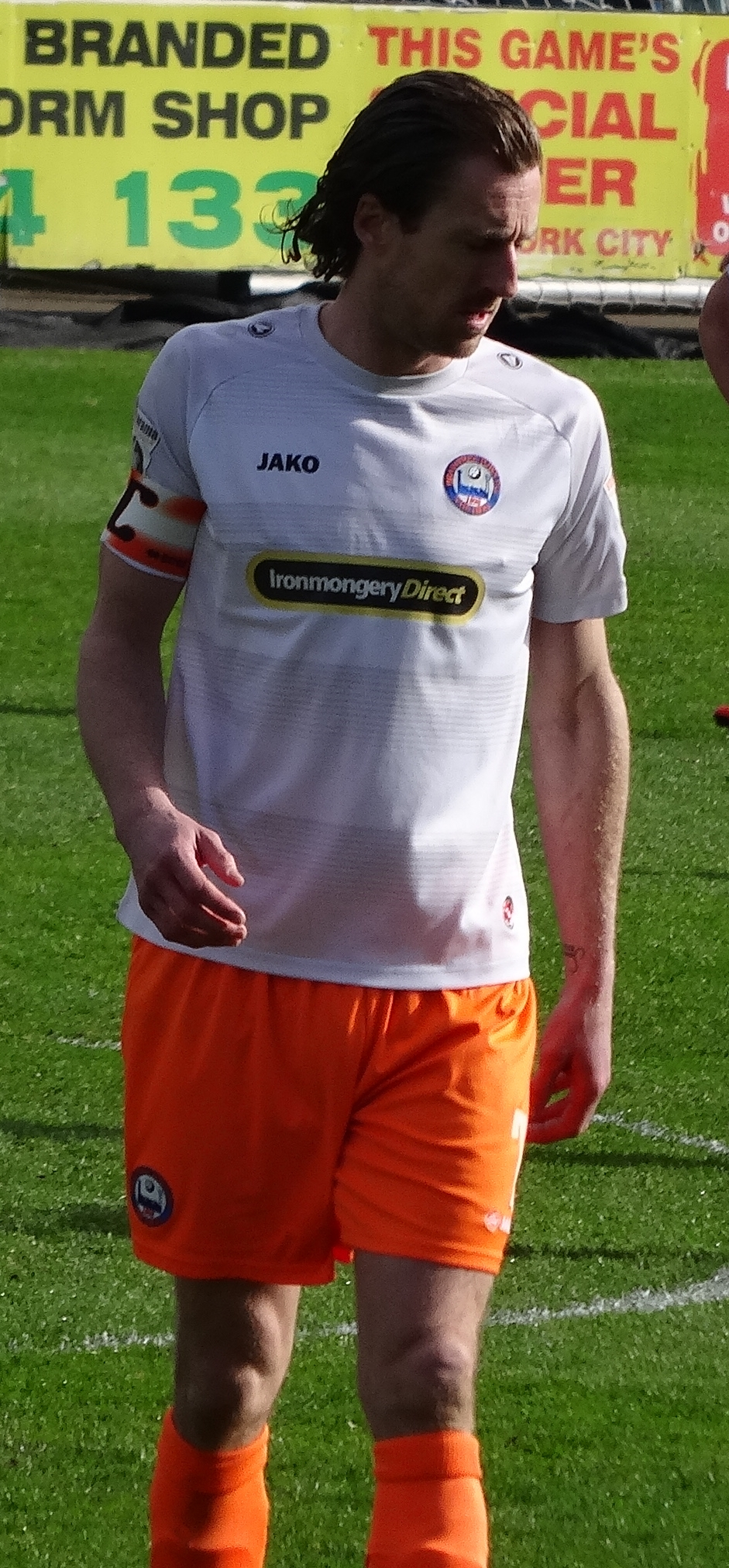 Jack Midson playing for Braintree Town against York City at Bootham Crescent, York on 1 April 2017